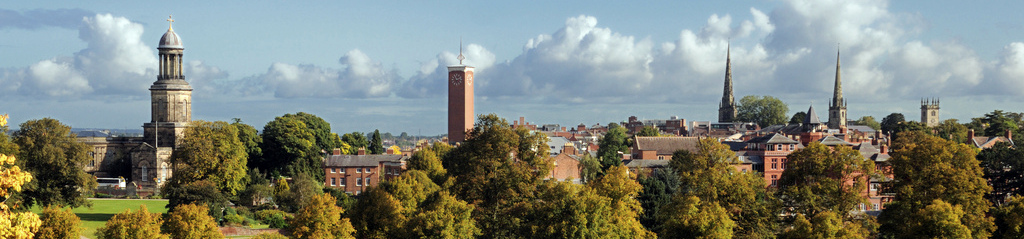 A panoramic view of Shrewsbury's skyline